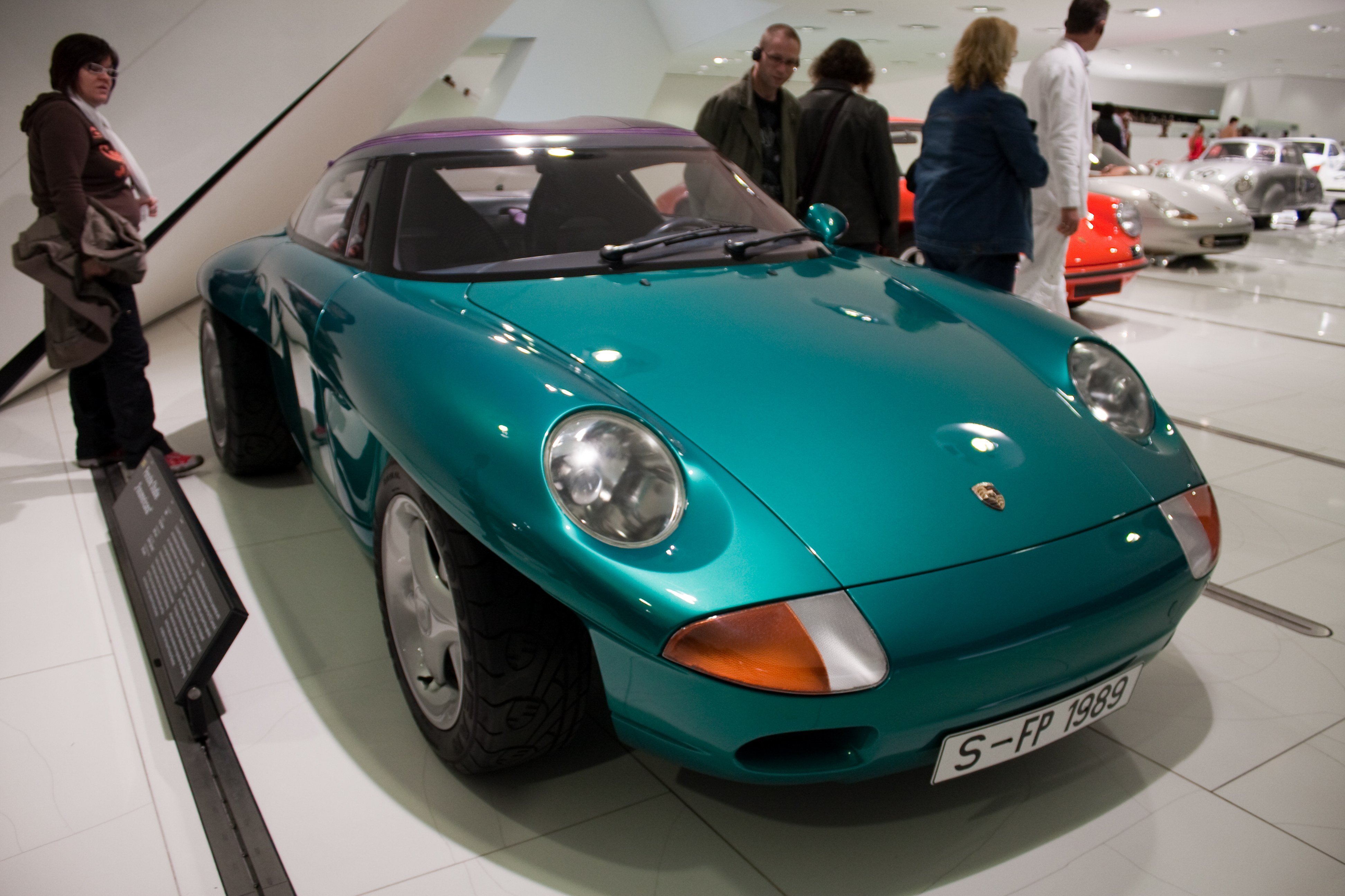 Porsche Panamericana seen at Porsche Museum, Stuttgart.